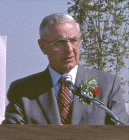 Oregon Governor Victor Atiyeh in 1986, about four months before the end of his second and final term in office.